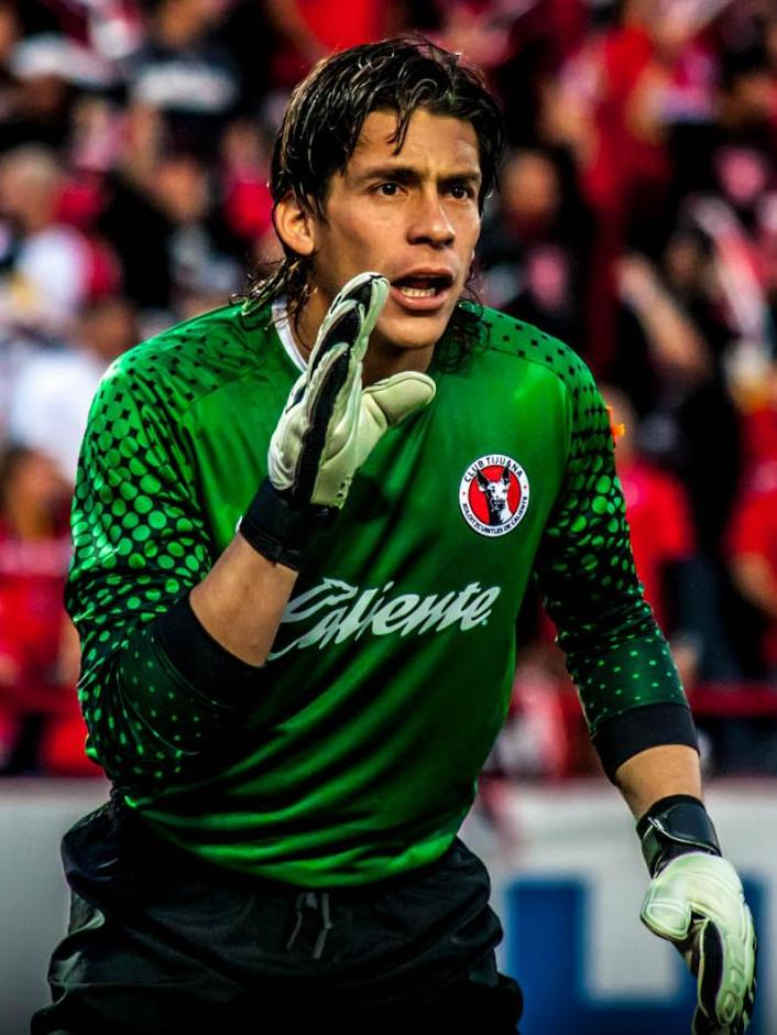 xolos vs atlante, clausura 2012 del futbol mexicano